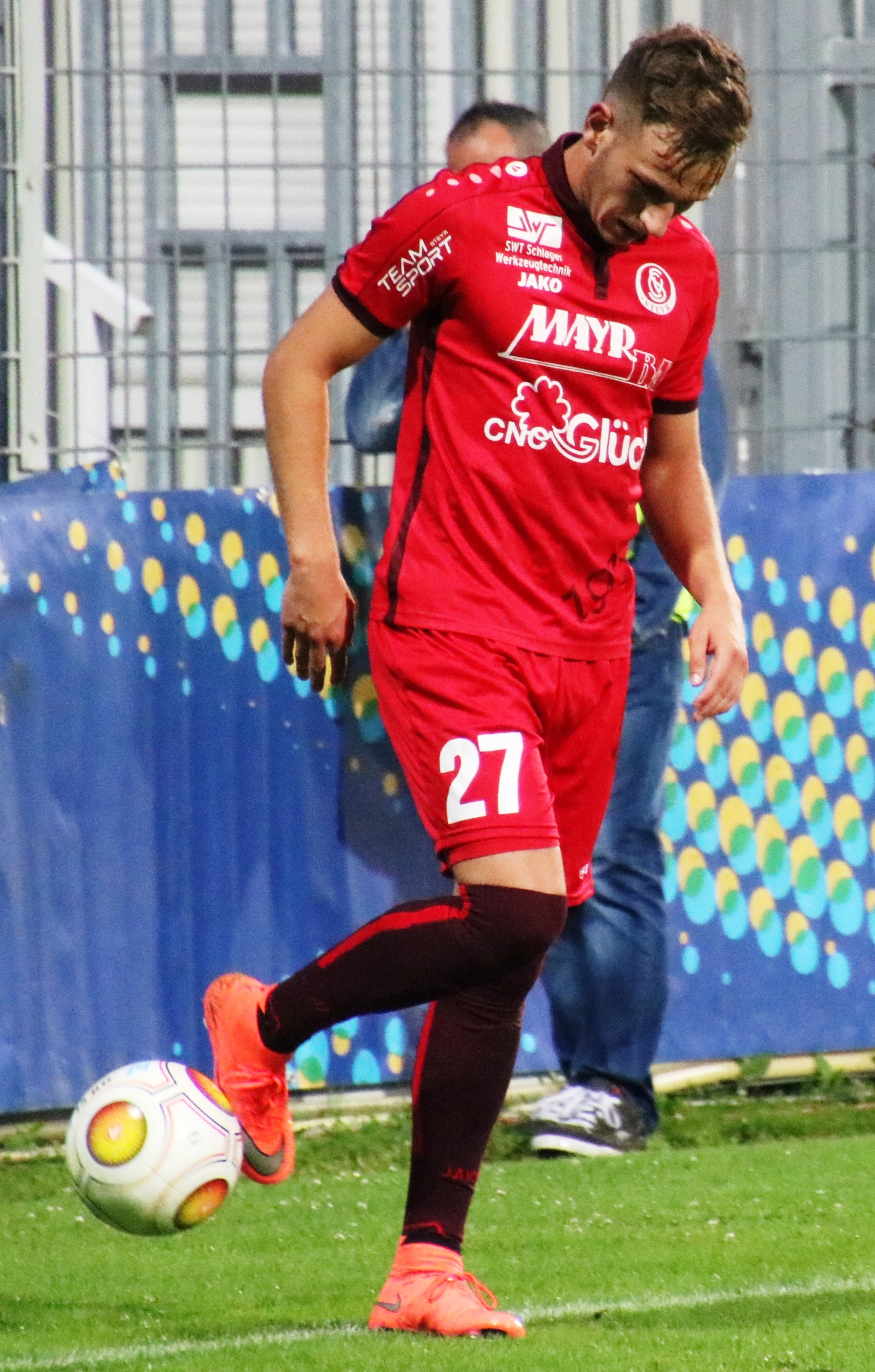 Austrian Cup 1st round